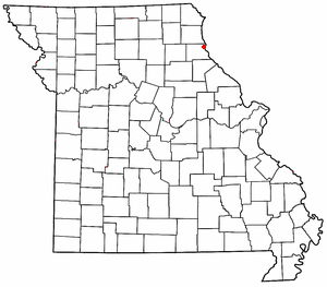 Modified from a map on Wikipedia.